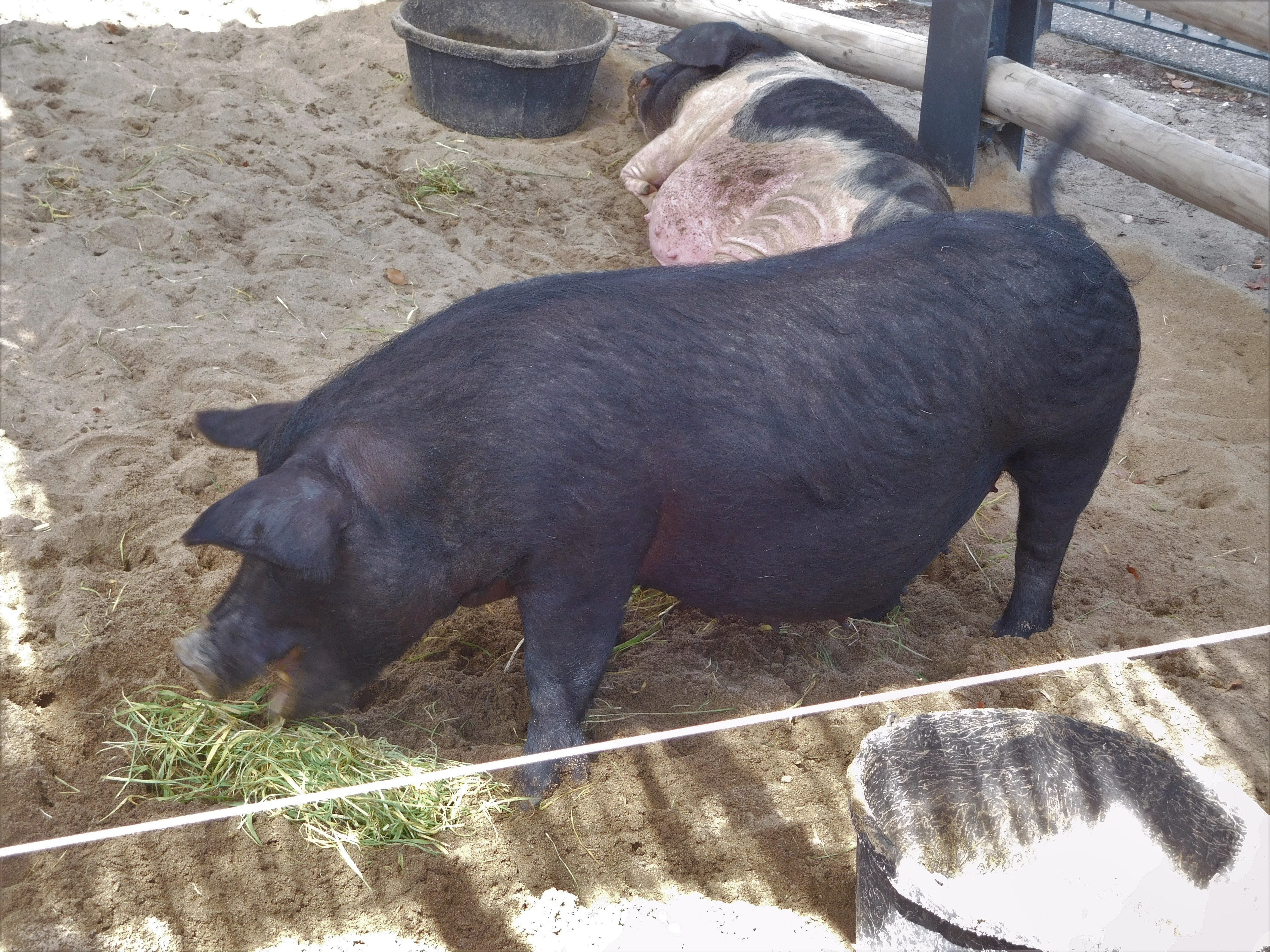 Okinawan pig "agu" at Ueno Zoo in Tokyo, Japan. Behind agu is also Okinawan pig "ayo".